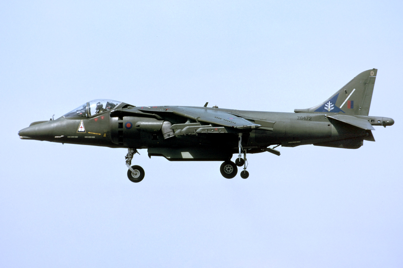 A GR7 arriving at Fairford for the RIAT in July 1996. ZG472 was used by the Strike Attack Operational Evaluation Unit (SAOEU) and is now stored in the Arizona desert.